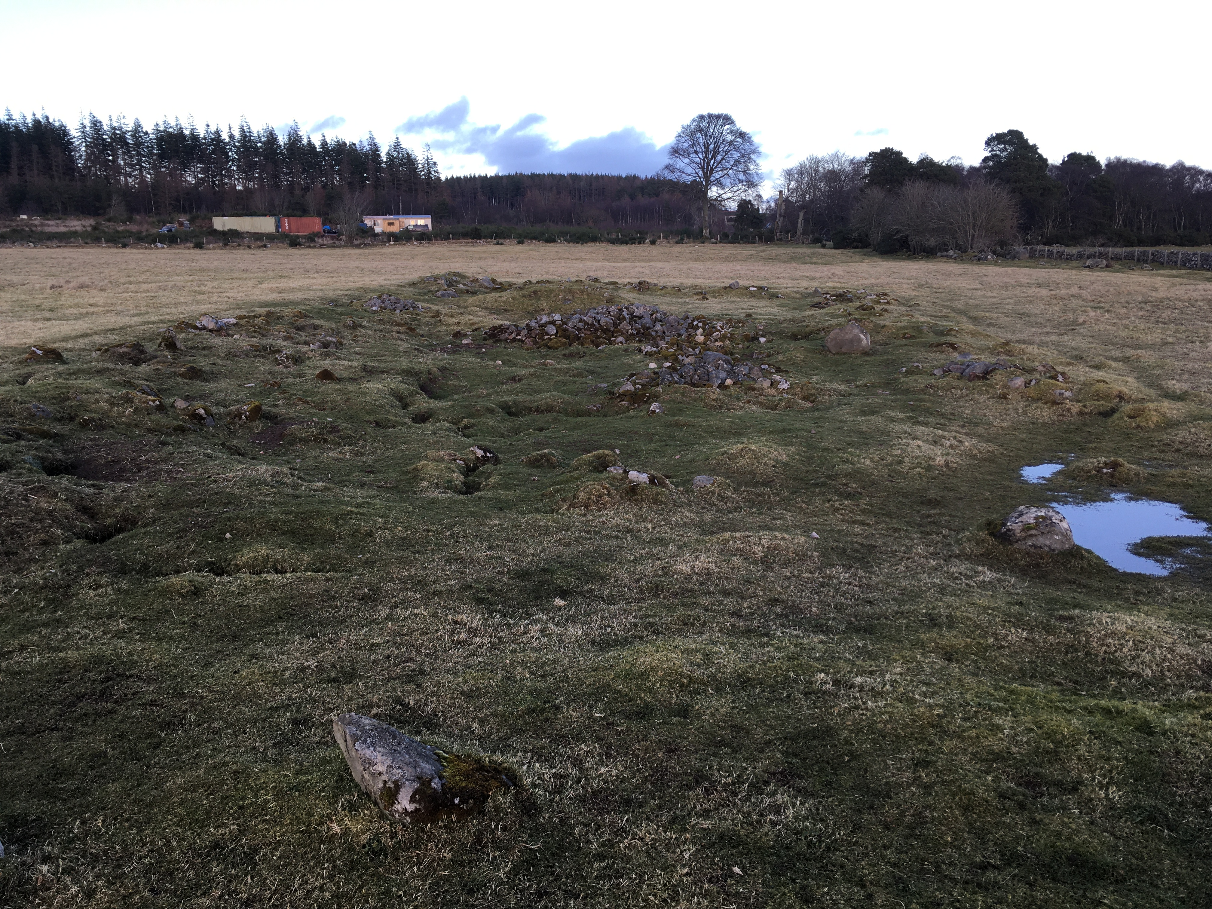 Carn Glas,cairns,Mains of Kilcoy Wikidata has entry Q56664408 with data related to this item.